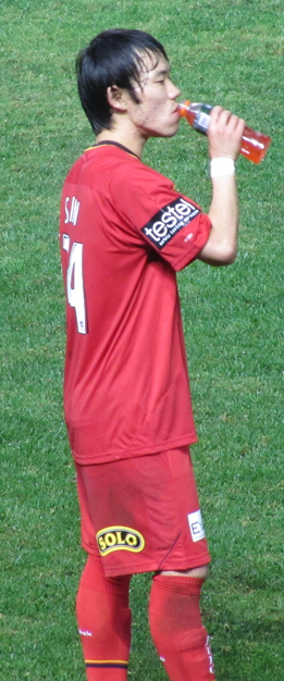 Shin In-Sup after the June 26, 2009 Adelaide United friendly against Perth Glory.